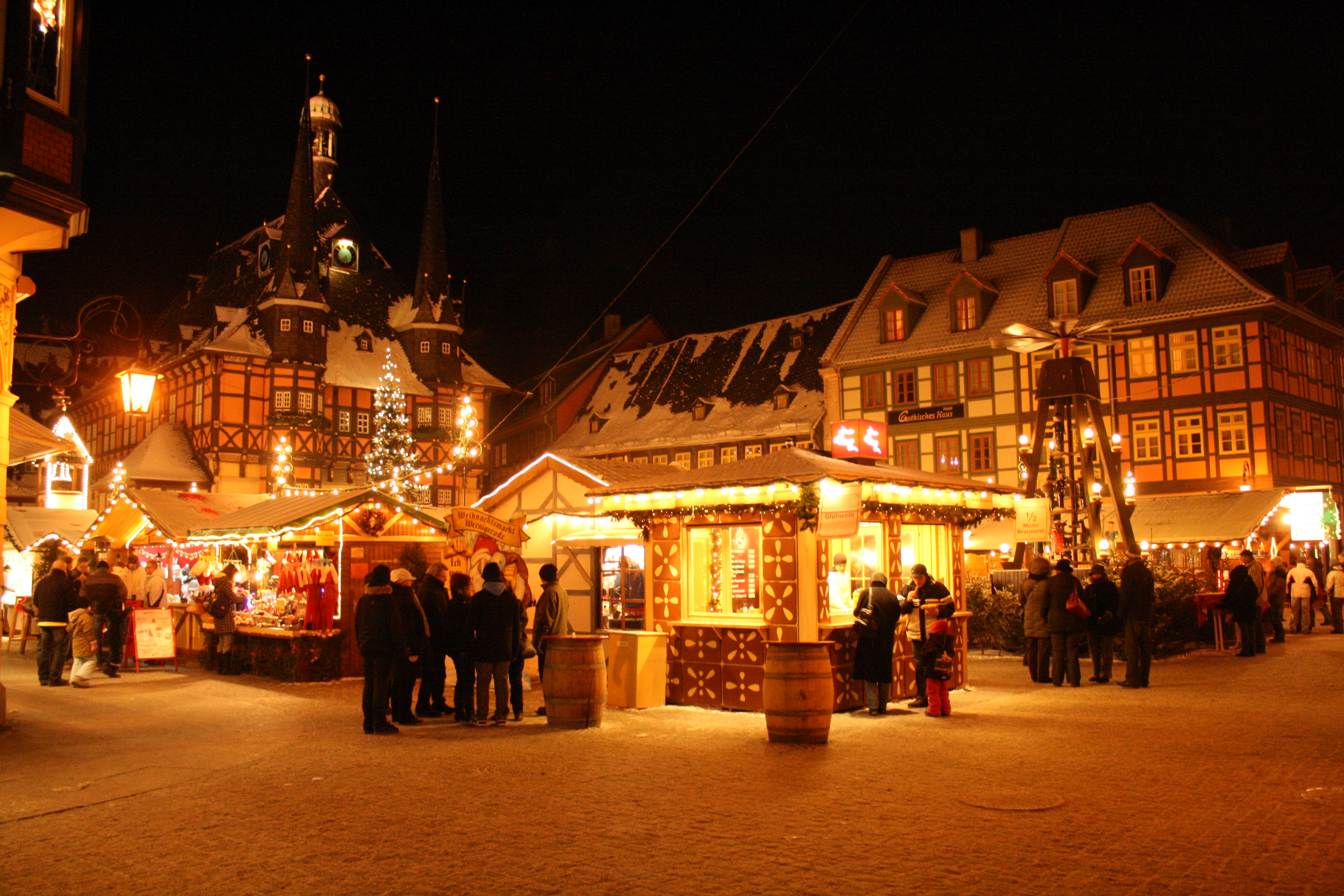 Town Hall Wernigerode at Christmas time.